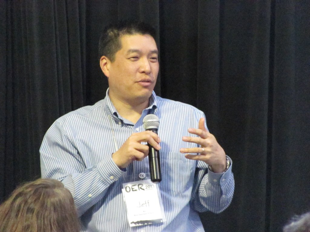 Hewlett Foundation Open Educational Resources grantees meeting, 2013